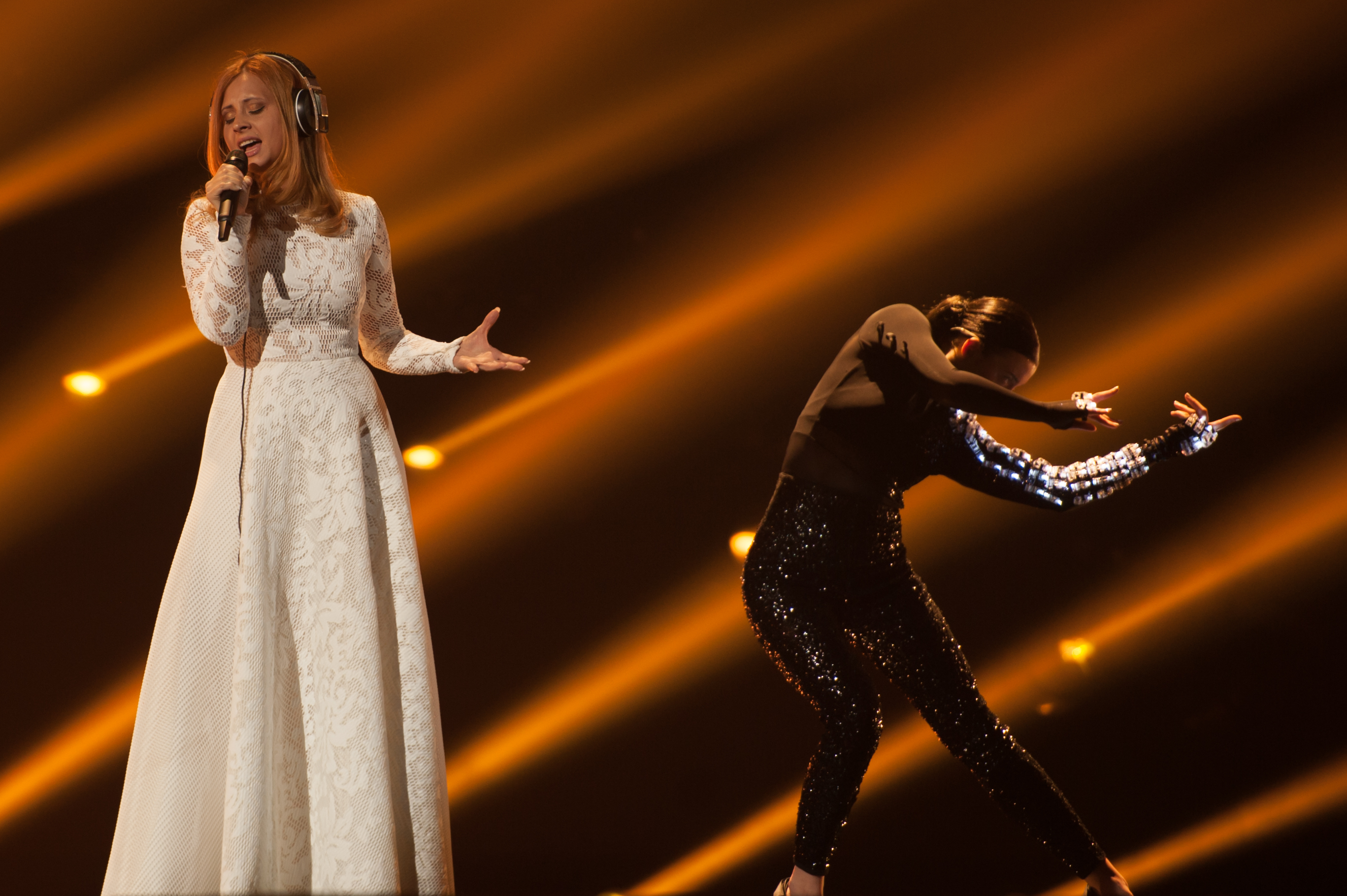 Eurovision Song Contest Vienna 2015: Maraaya